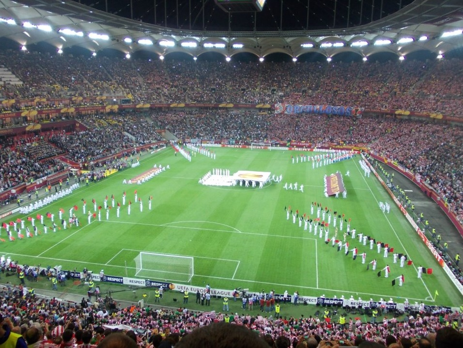 2012 EL Final at Arena Națională in Bucharest, Romania Atlético Madrid v. Athletic Bilbao (May 9)